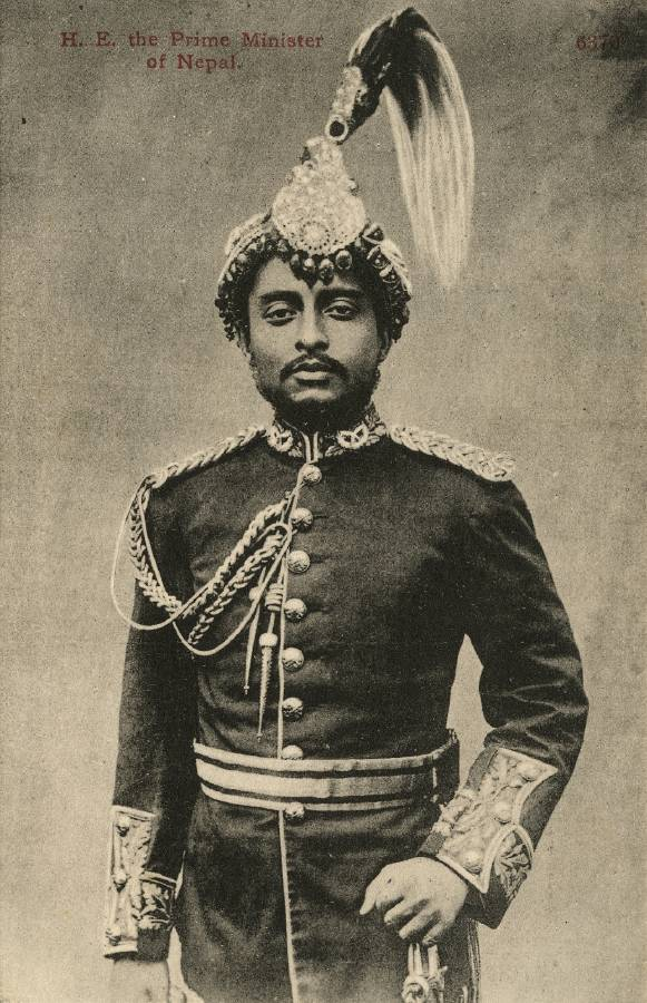 Shree 3 Chandra Shamsher Janga Bahadur Rana, Prime Minister of Nepal and Maharaja of Lamjung and Kaski at 1900s, scion of Kunwar clan of Kaski नेपाली: श्री ३ चन्द्र शम्शेर जङ्गबहादुर राणा, नेपालको प्रधानमन्त्री तथा कास्की र लम्जुङ्गका महाराजा